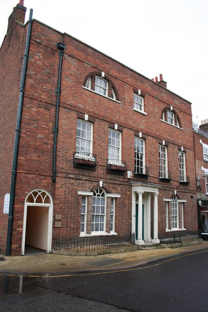 Vine House A handsome house in Vine Street by local architect John Langwith in 1764, now a doctor's surgery.